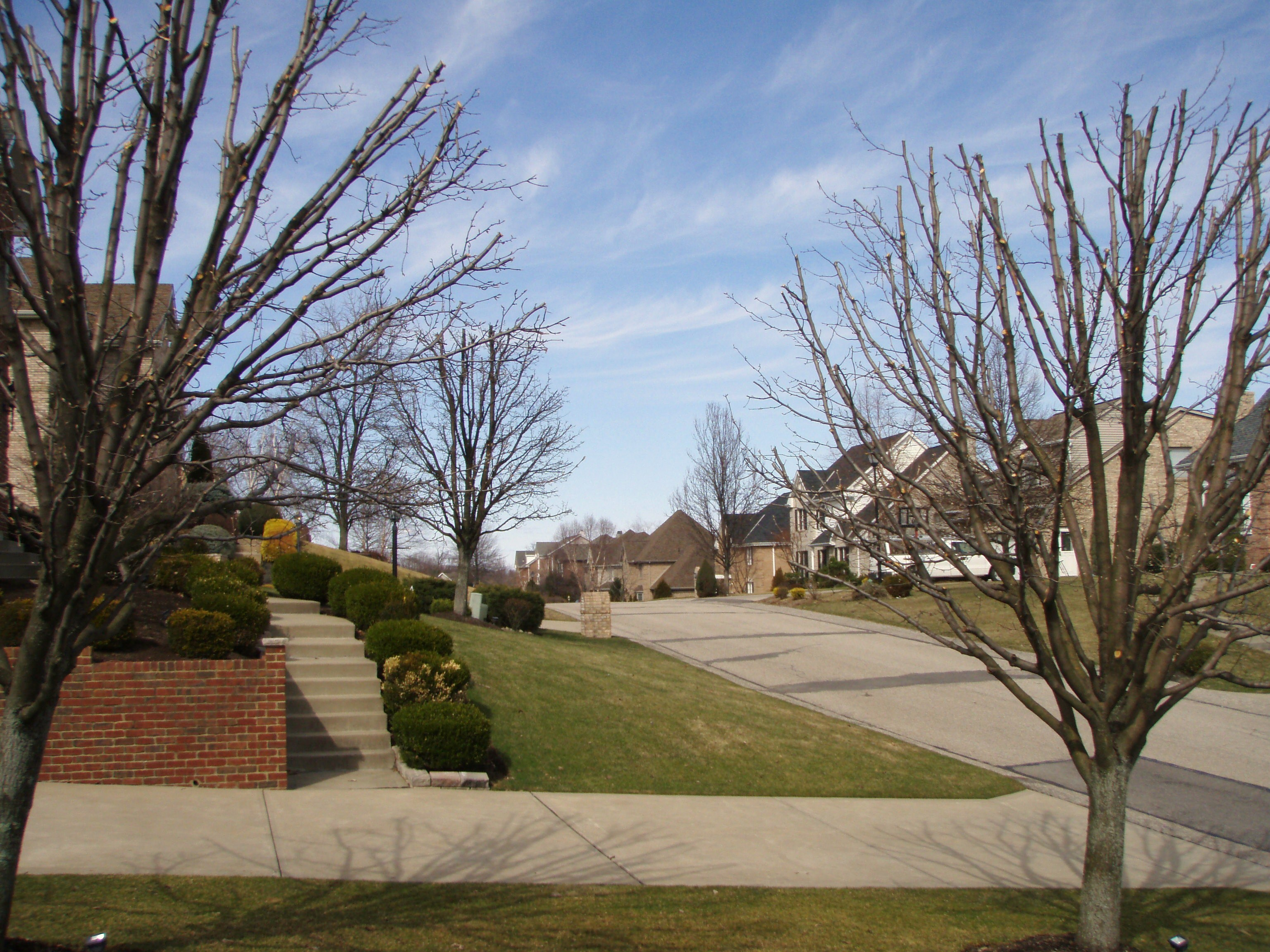 Street view of Hickory Heights, PA